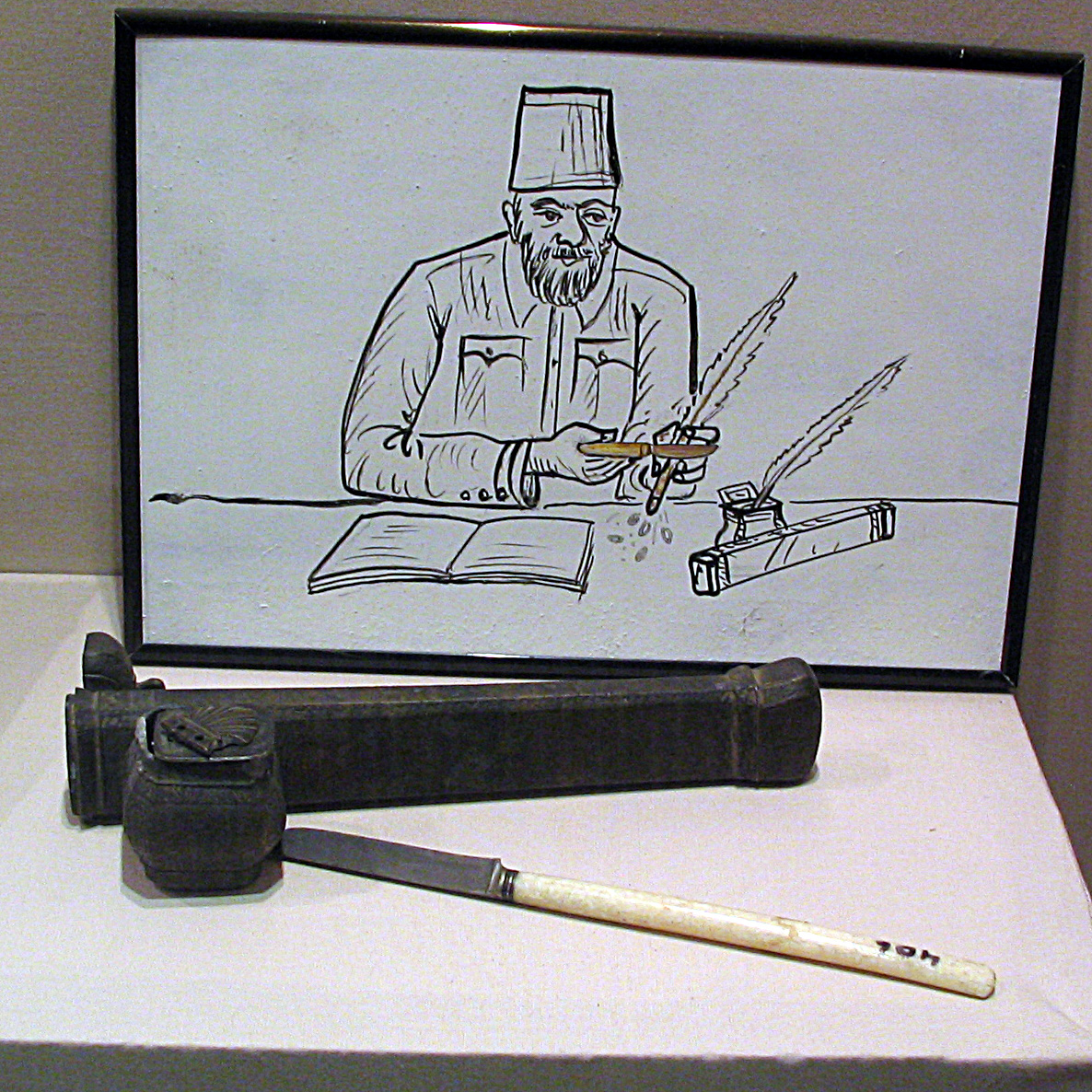 Divit, Archeological museum Alanya, Turkey.